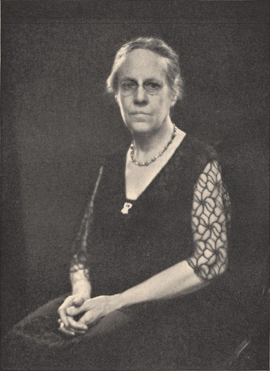 Self-portrait of Eva Watson-Schütze, seated three-quarter portrait.